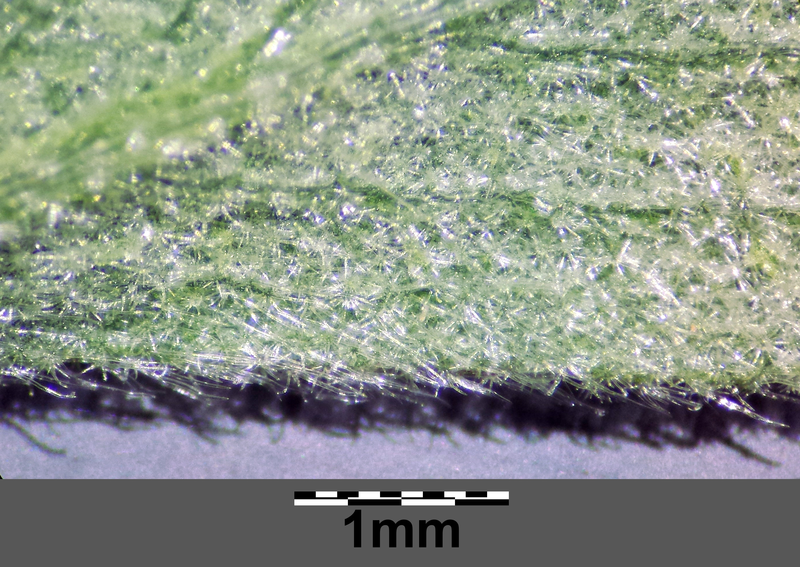 Bottom side of a leaf with clustered hairs Left: upper side Right: bottom side Taxonym: Potentilla incana ss Fischer et al. EfÖLS 2008 ISBN 978-3-85474-187-9 Location: semi-dry grassland between Groß-Schweinbarth and Bad Pirawarth, district Gänserndorf, Lower Austria - ca. 180 m a.s.l. Habitat: semi-dry grassland